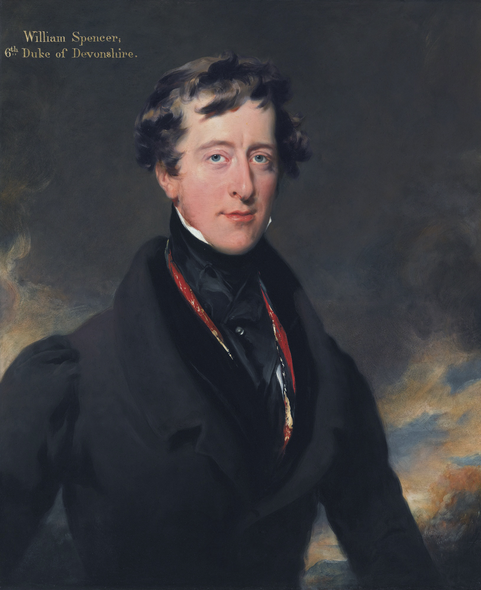 William Spencer Cavendish, 6th Duke of Devonshire (1790-1858) oil on panel 76 x 63.5 cm later inscribed t.l.: William Spencer; / 6th.. Duke of Devonshire